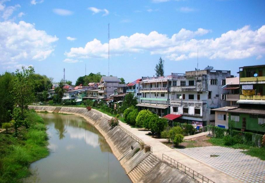 Ngao town with the Ngao river, a tributary of the Yom river, in the foreground, Ngao District, Lampang Province, Thailand